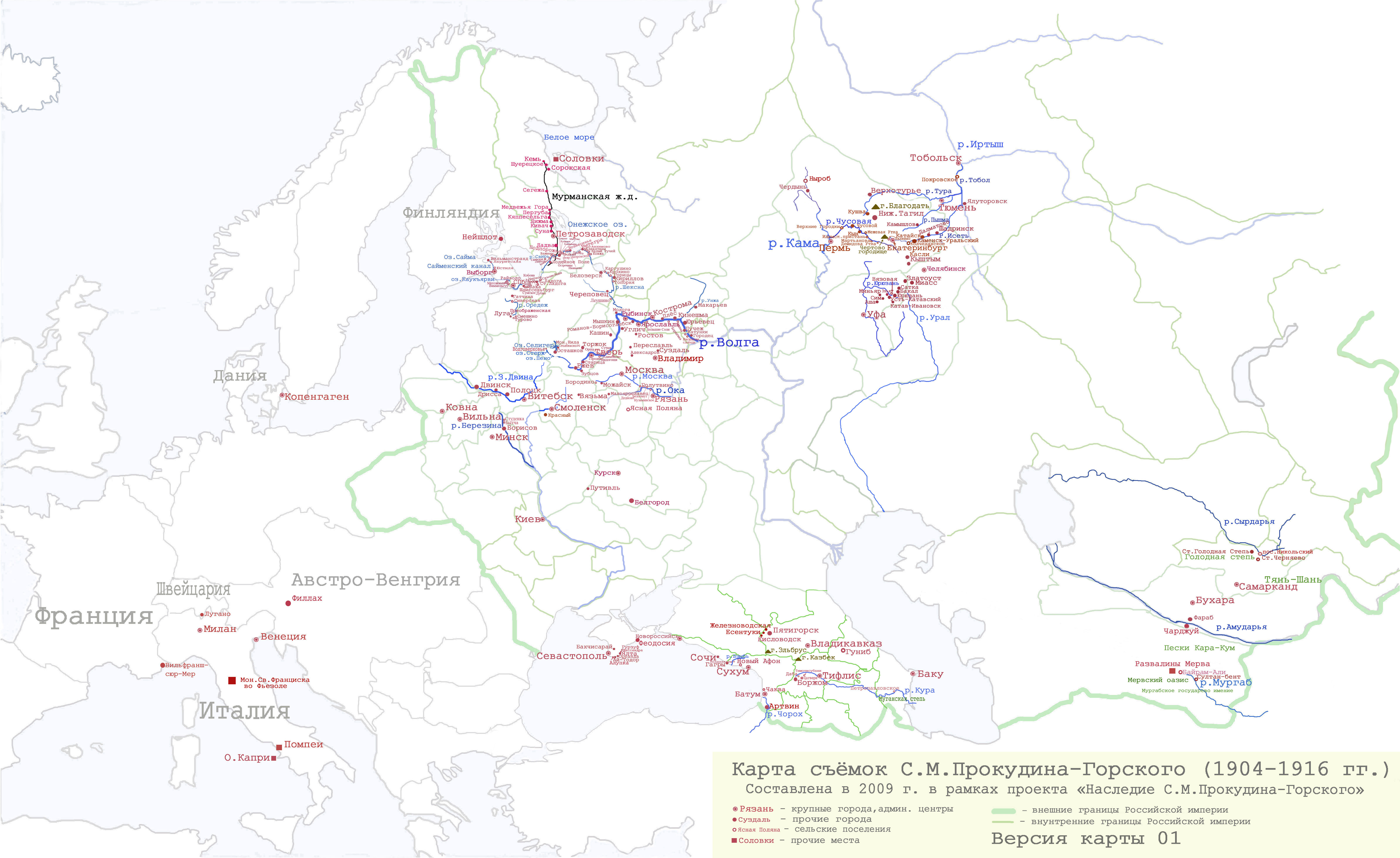 Map of photographic journeys of Sergey Prokudin-Gorsky